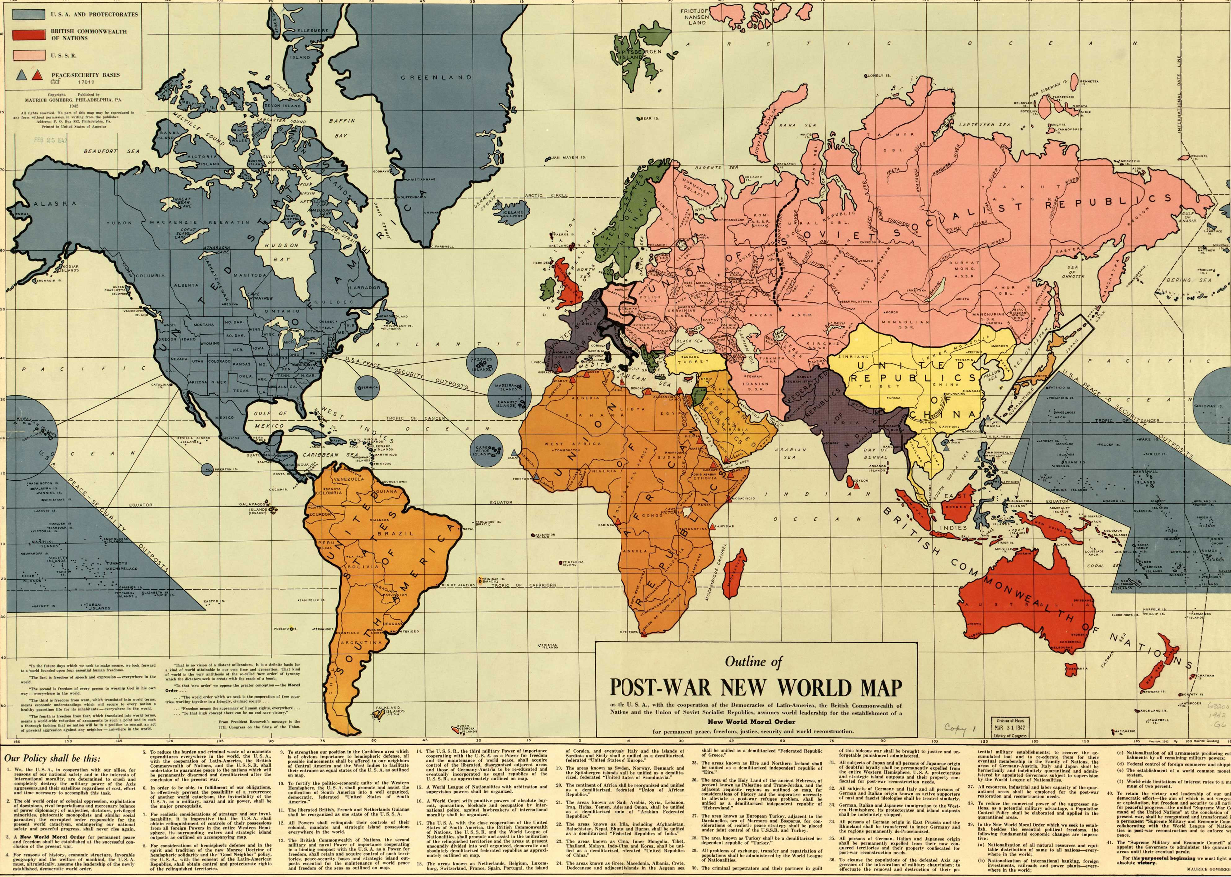 Maurice Gomberg's Post-War New World Map proposing the establishment of "a New World Moral Order for permanent peace, justice, security and world reconstruction".